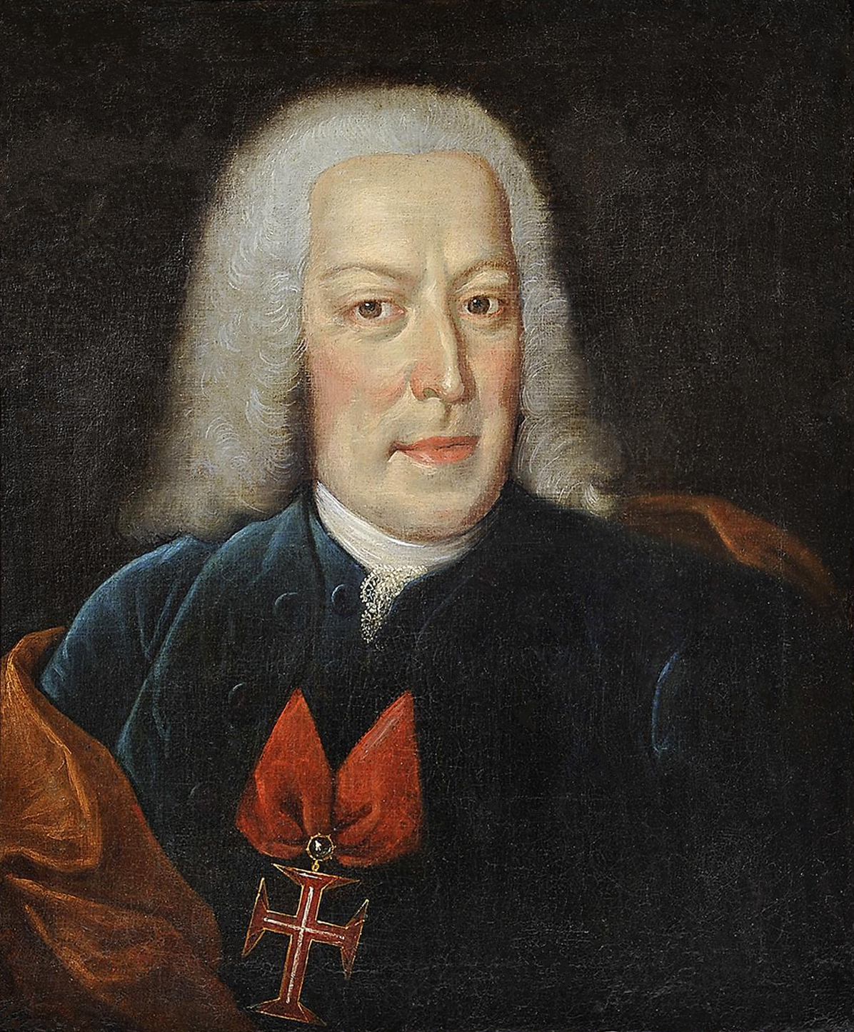 Portrait of Sebastião José de Carvalho e Melo, 1st Marquis of Pombal (18th century)